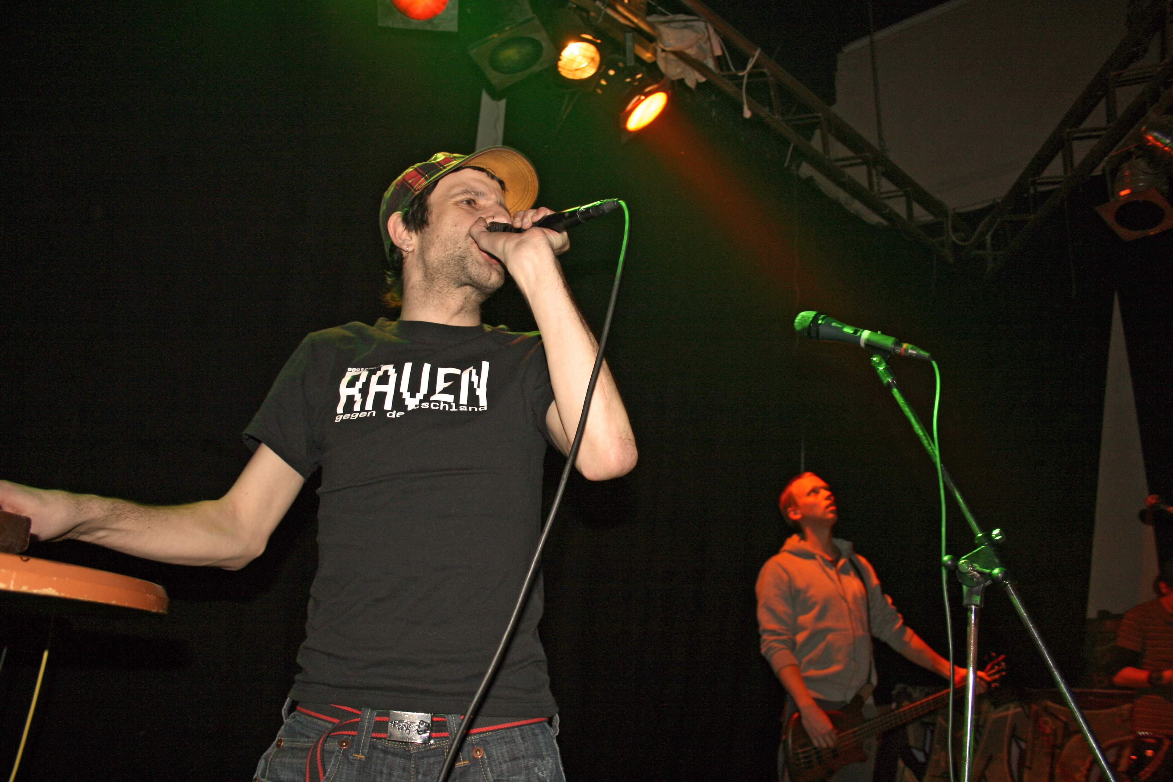 Electropunk band "Egotronic" in concert. Wunstorf, Germany on March 16th 2007. Torsun on the left and former band member Hoerm on the right.